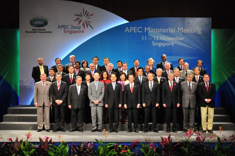 The member of Asia-Pacific Economic Cooperation Ministerial Meeting posed for photos in Singapore in 2009-11